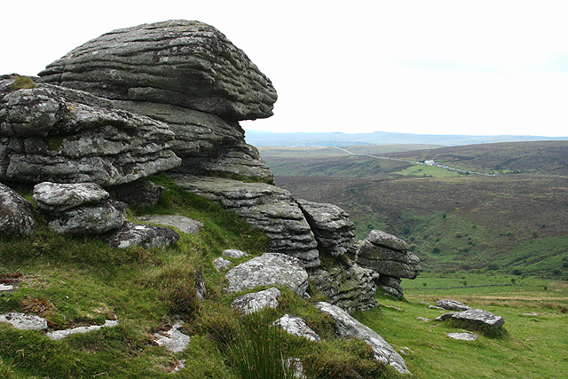 North Bovey: Birch Tor, on Dartmoor, Devon, England. In the distance is the Warren House Inn, on the B3212 road between Moretonhampstead and Princetown.